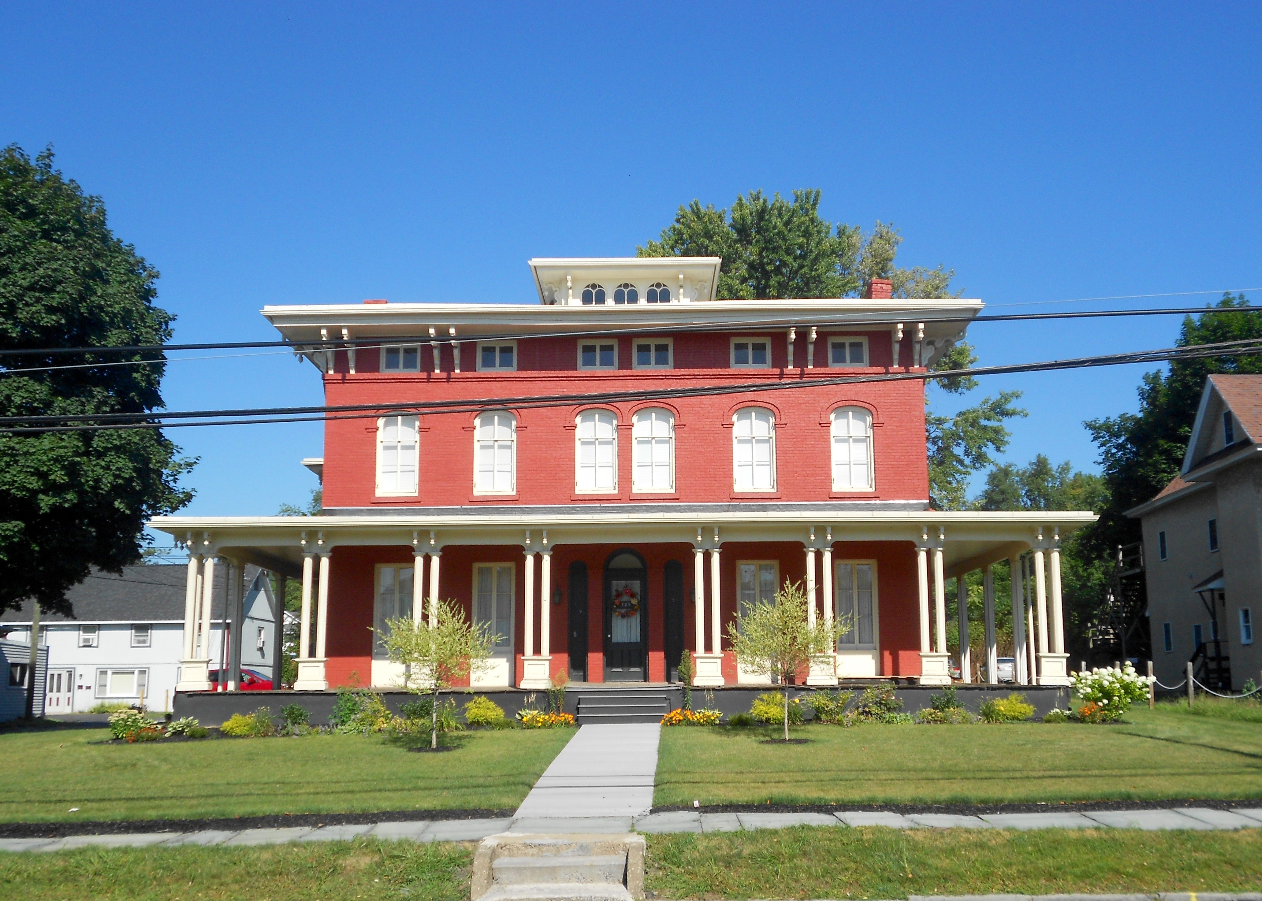 An Italianate style house on Main Street in Blakely, Pennsylvania